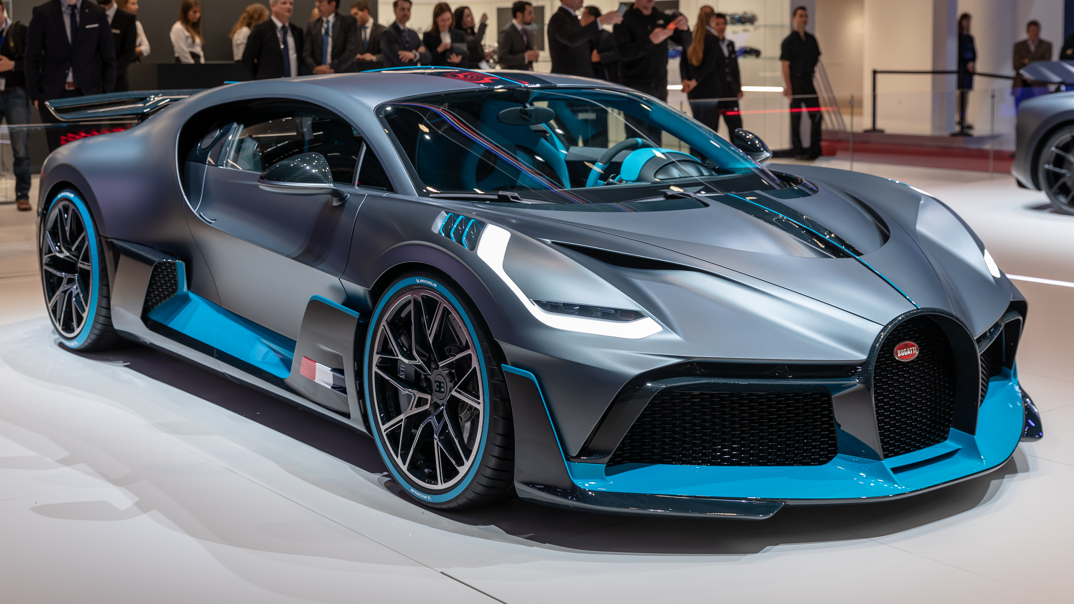 Bugatti Divo at Geneva International Motor Show 2019, Le Grand-Saconnex